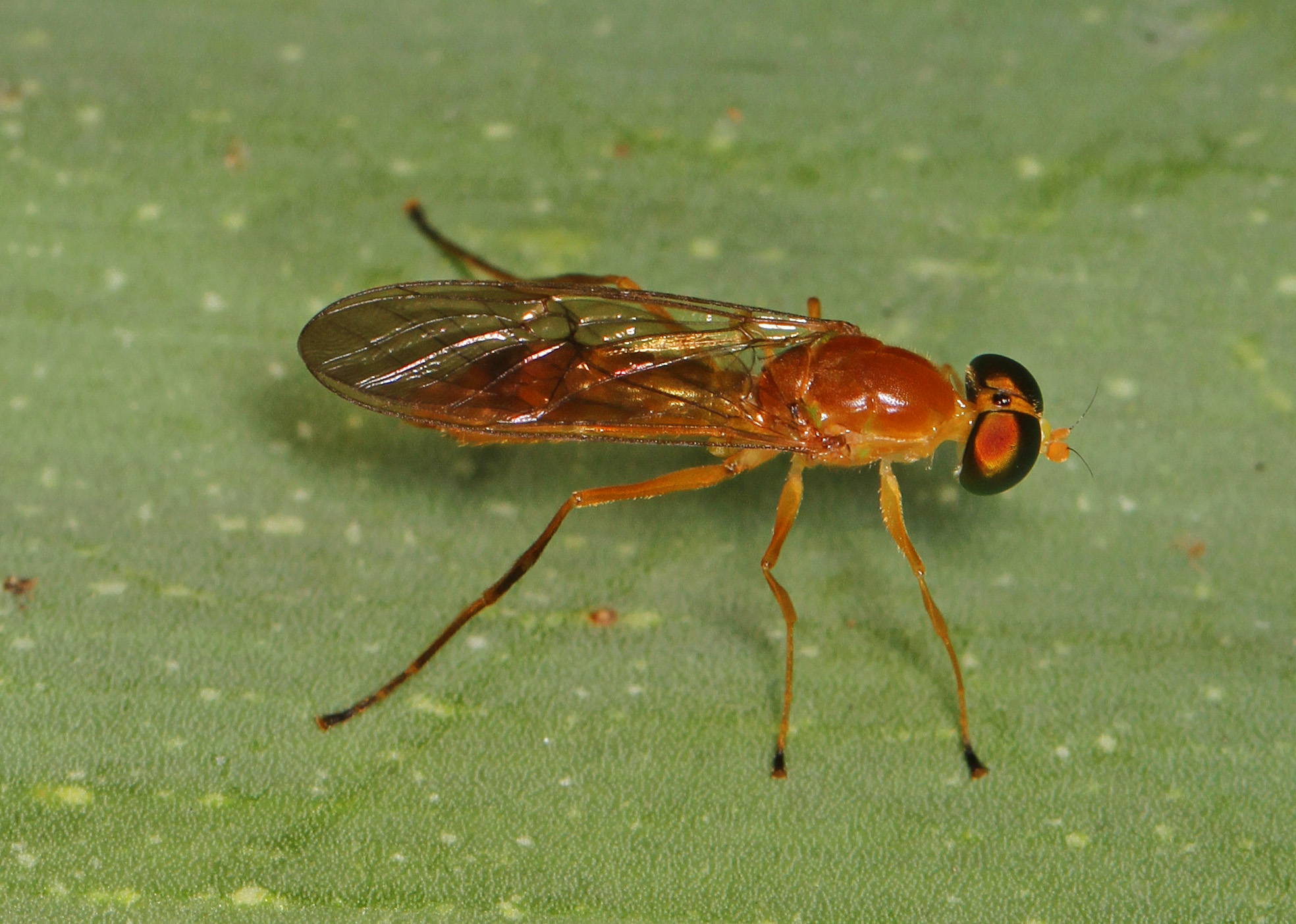 Soldier Fly - Ptecticus trivittatus, Woodbridge, Virginia.